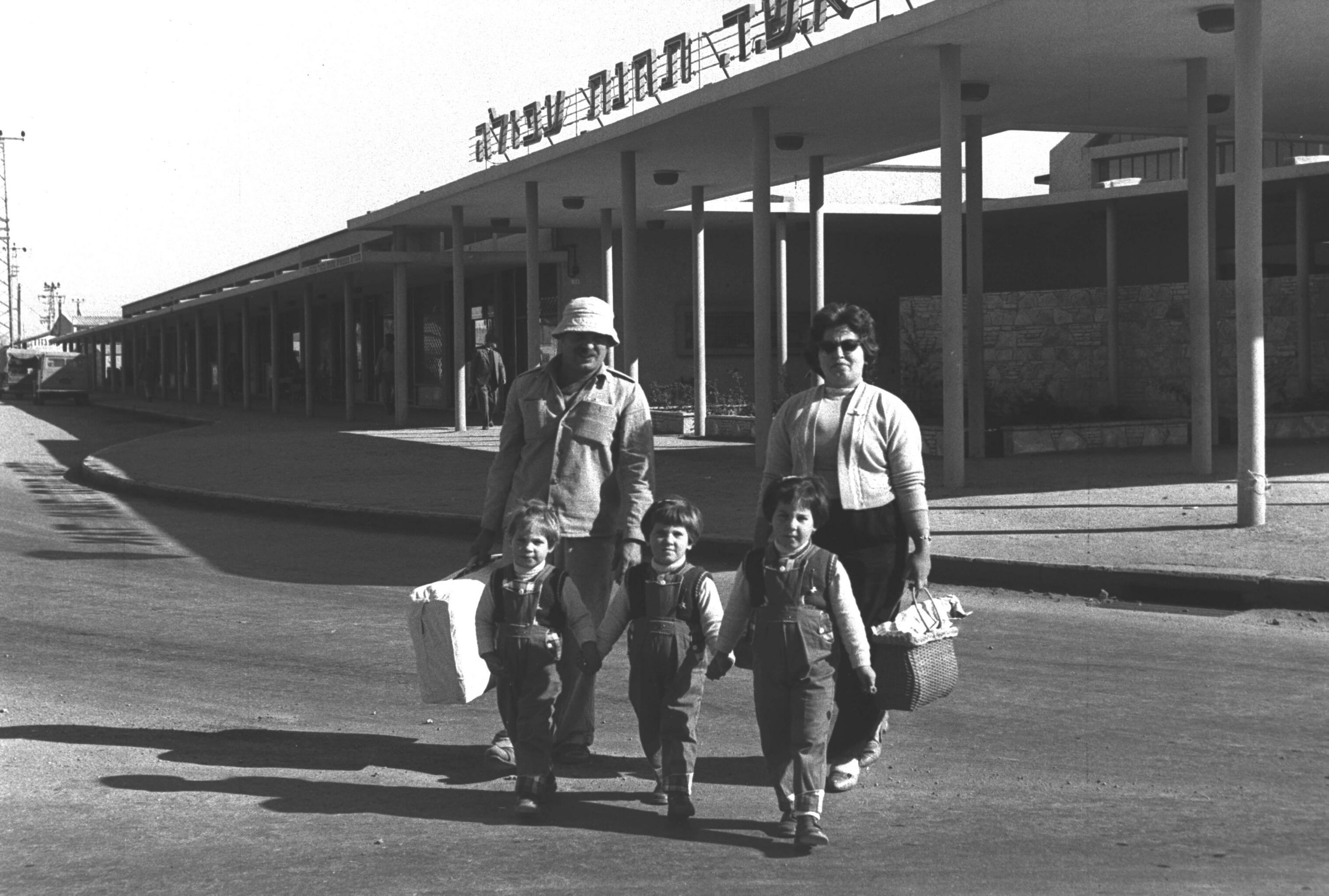 THE NEW "EGGED- ESHED" CENTRAL BUS STATION IN AFULA